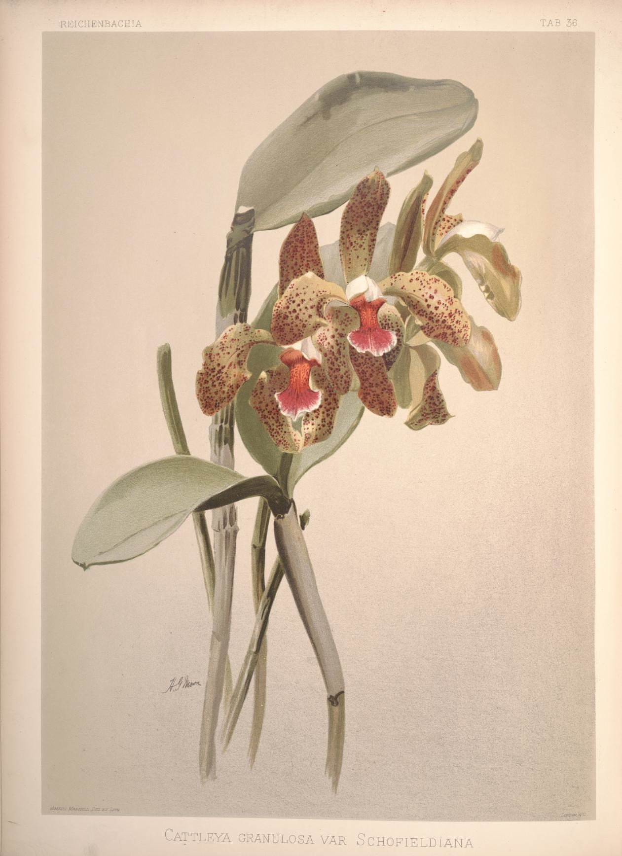 ' REICHENBACHIA TAB 36. I ■ !i* . LaNpw.'W-C- T L E YA LOSA VAR SCHO I ELD I AN A